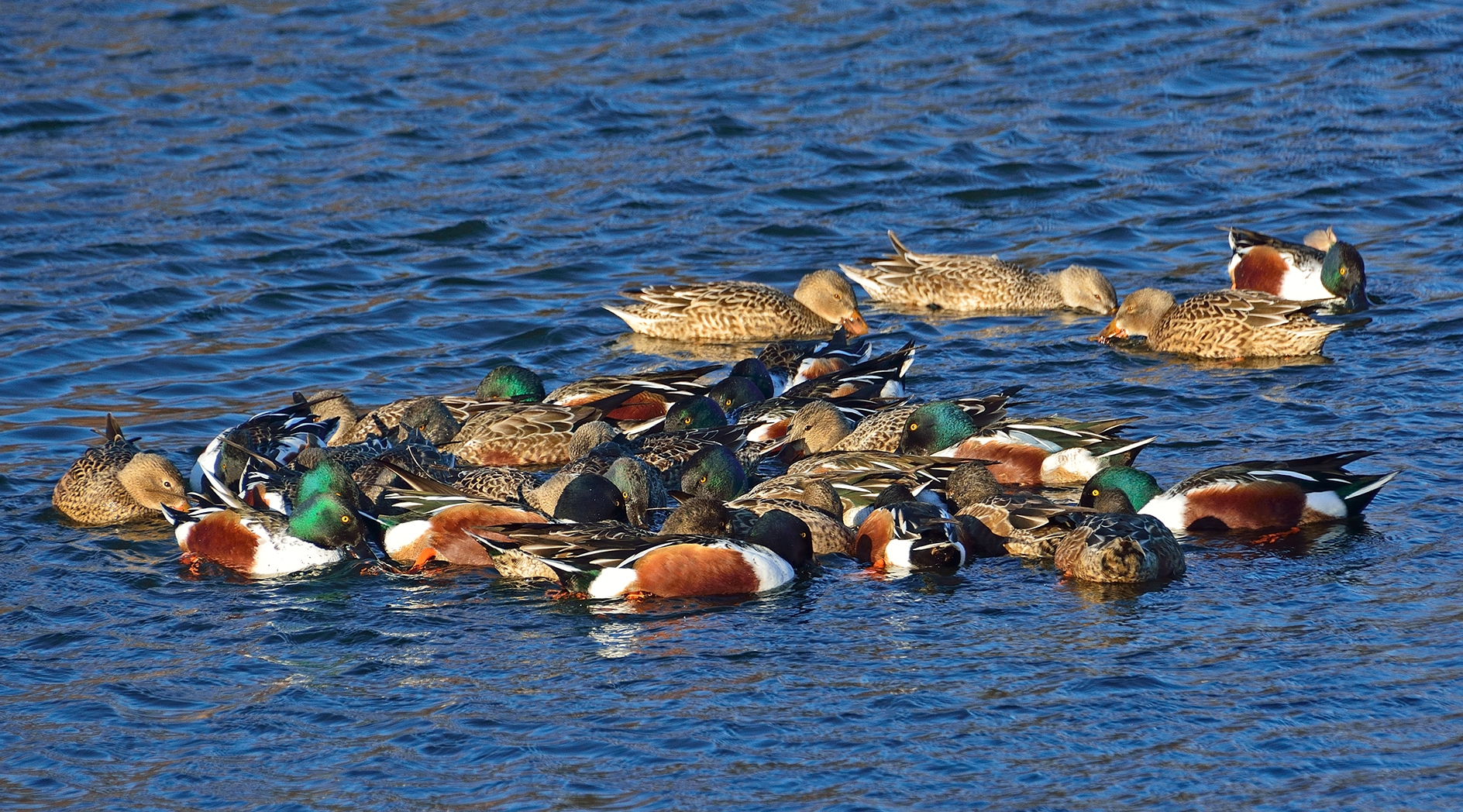 A group of Northern Shoveler Anas clypeata is swimming in circles creating a funnel effect to collect food from the surface. Woodcliff lake, New Jersey, USA.